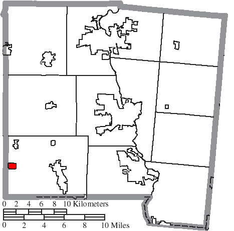 Map of the municipal and township boundaries of Miami County, Ohio, United States, as of the 2000 census, with the location of the village of Potsdam highlighted. Township borders are shown only in unincorporated areas in order to differentiate incorporated and unincorporated areas more clearly.